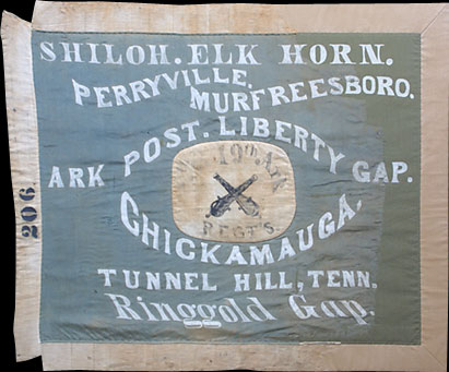 Flag of the 8th and 19th Consolidated Arkansas Infantry Regiments. Flag is another example of the 1864 issue of Hardee flags. This was produced and decorated specifically for the combined unit, displaying battle honors of each. The poorly dyed blue field, now faded to pea green, is typical of the 1864 flags. When it was captured at Jonesboro, Georgia, on 1 September 1864, the flag was identified as that of an artillery battery. The honor of crossed cannon, as well as the unit's position supporting Key's Battery, caused the confused attribution. Hardee Battle flag pattern, Cleburne's Division 1864 issue Cotton with black and white paint, 35" x 34 1/2" remaining War Department Capture Number 206. Currently located at the Old State House Museum, Little Rock Arkanas